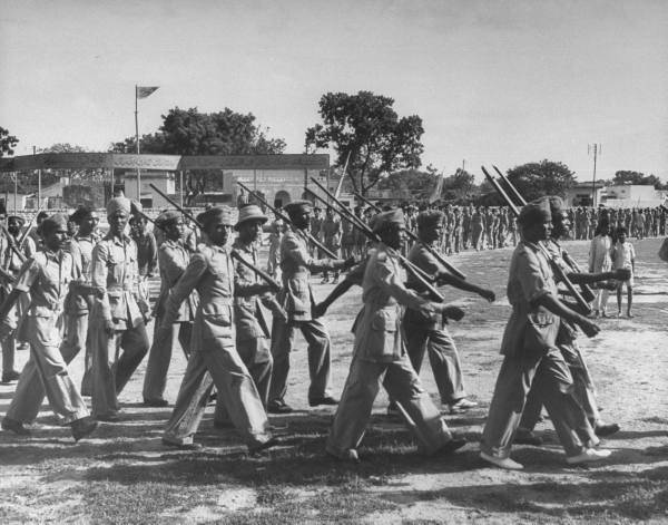 Muslim men and women undergoing military Razakar training to kill their Hindu neighbours in Telangana (1940s)